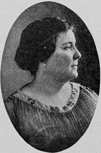 A middle-aged white woman with dark hair dressed off her neck (apparently in a low bun), seen in almost-profile in an oval frame.